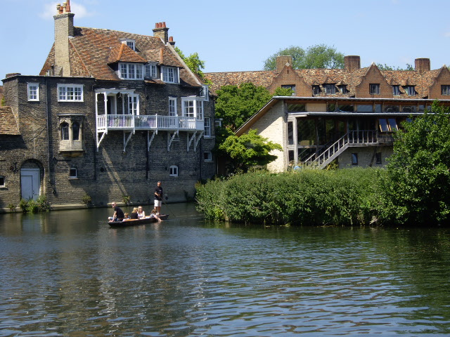 The Old Granary, Darwin College, Cambridge, from across the Mill Pit, below the River Cam.